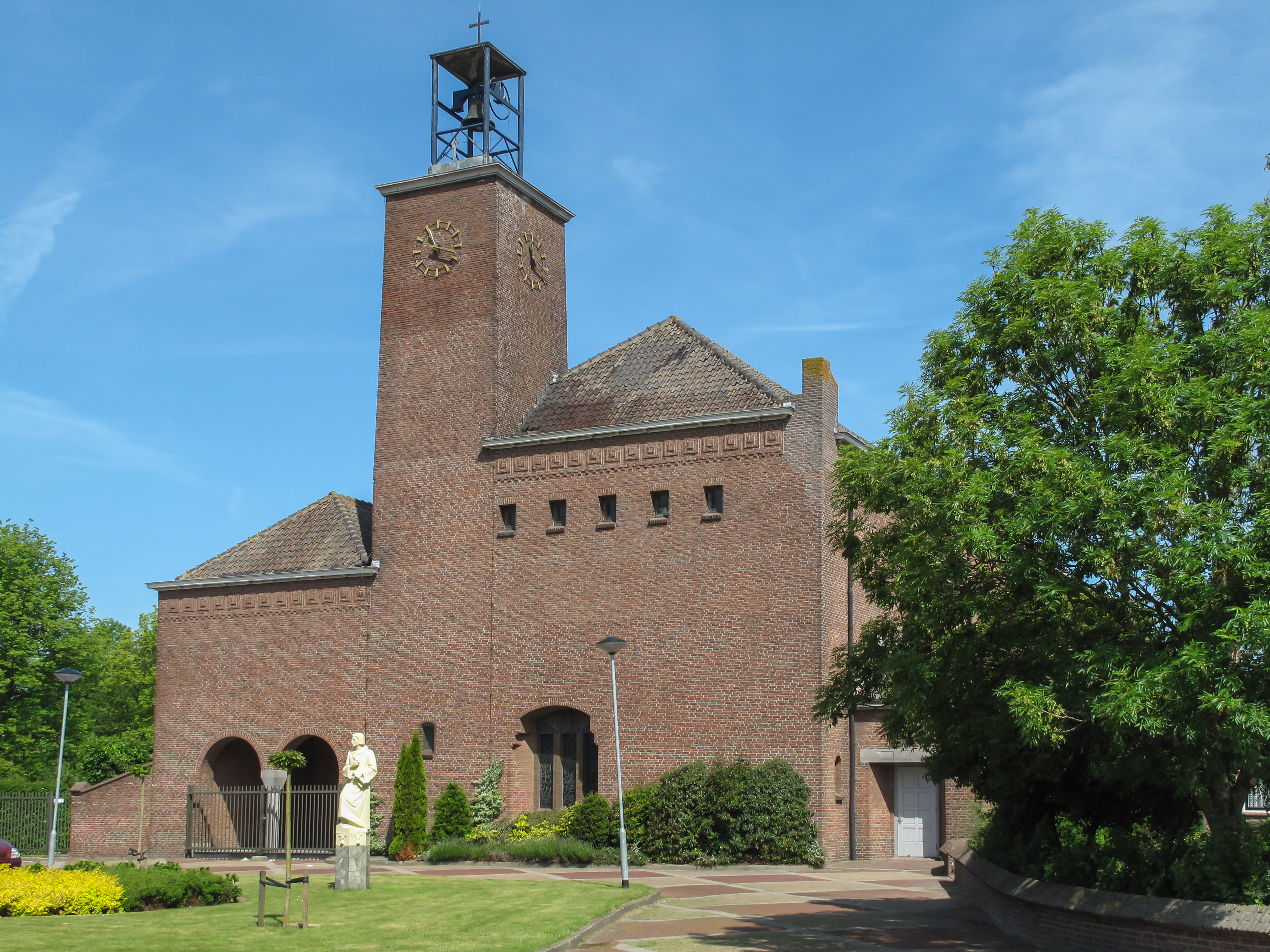 Venhuizen, church: Sint Lucaskerk